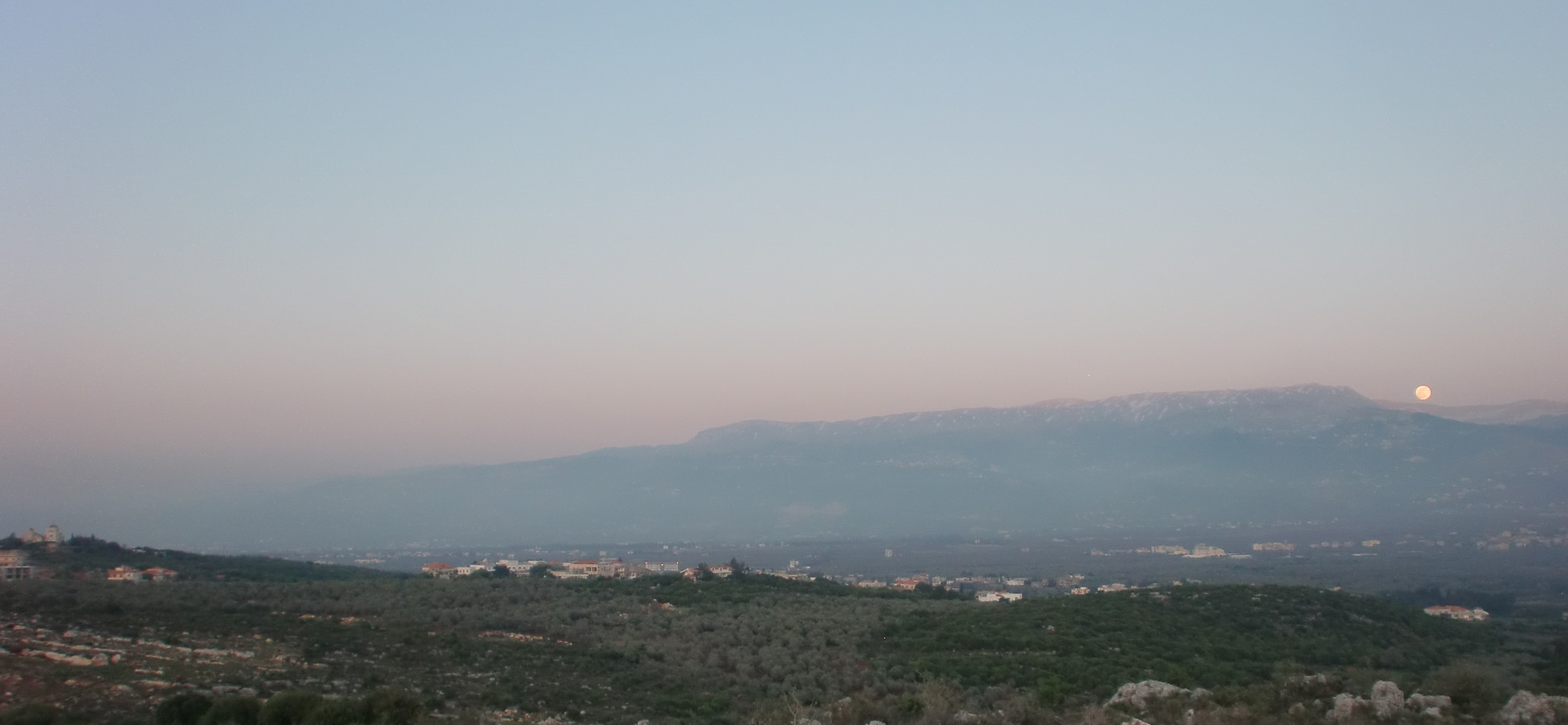 Overview of Bdebba village overlooking the mountain in Koura district of Lebanon (at moonrise)